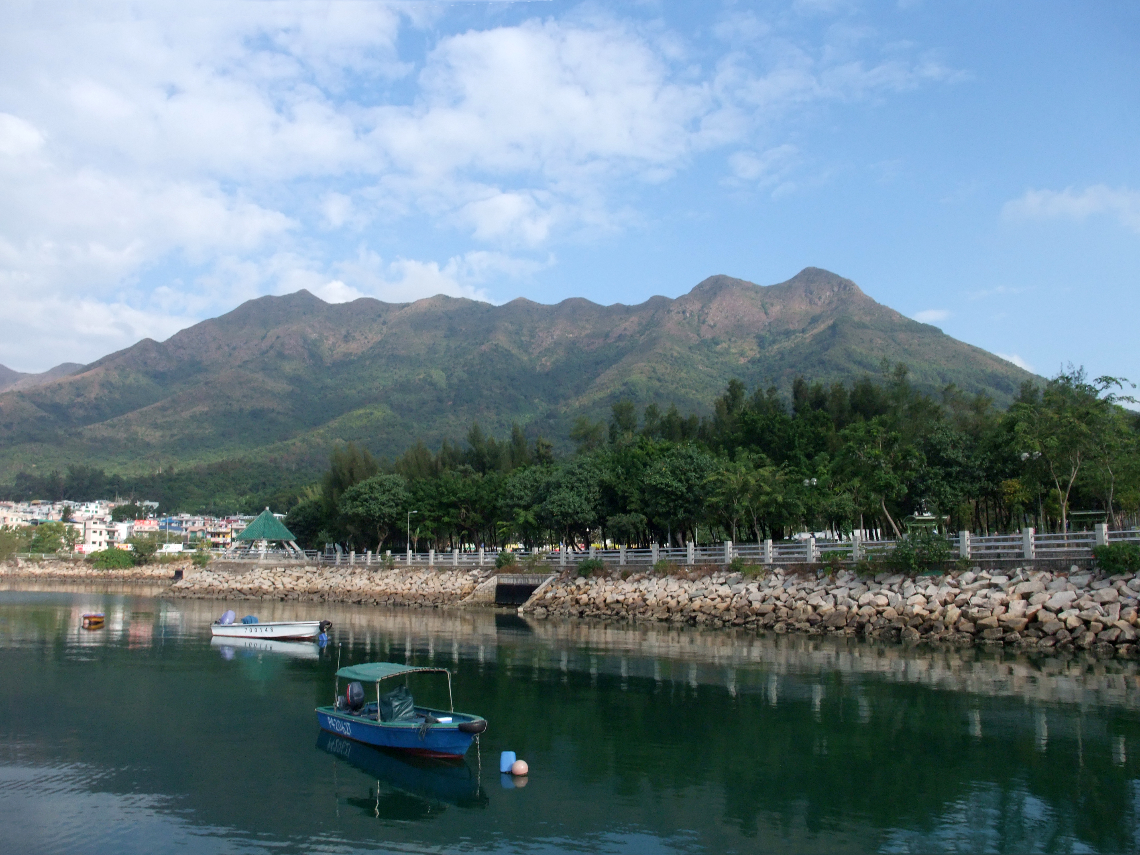 Photo of Pat Sin Leng